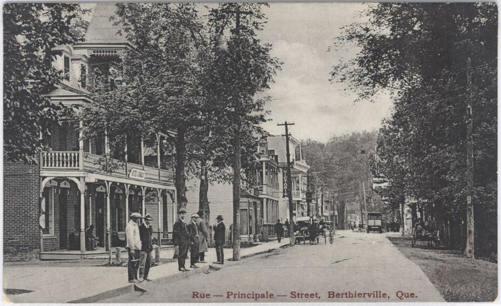 carte postale, Novelty Manufacturing & Art Co., Ltd.